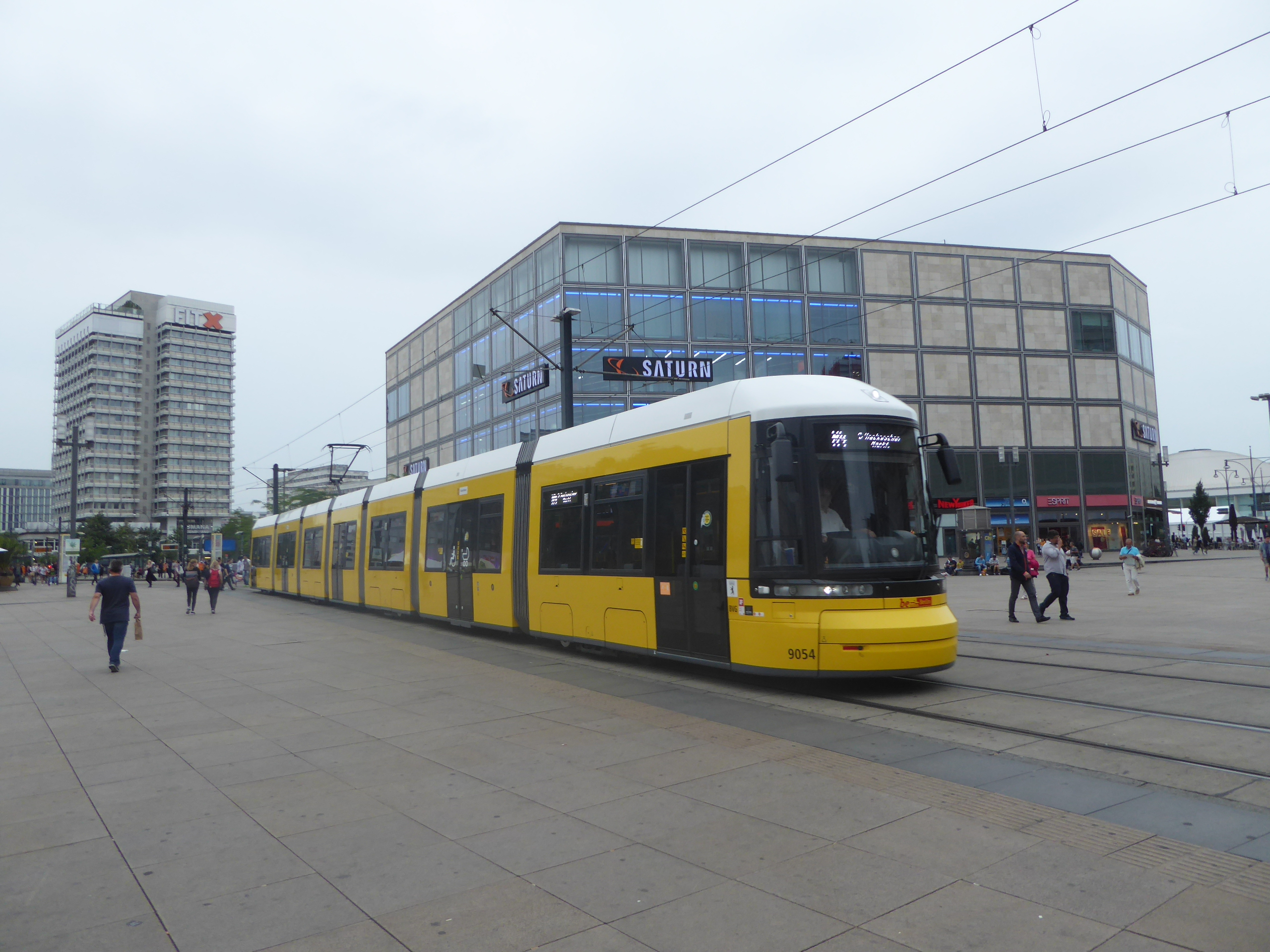 BVG tram line M4 at Alexanderplatz in Berlin-Mitte.